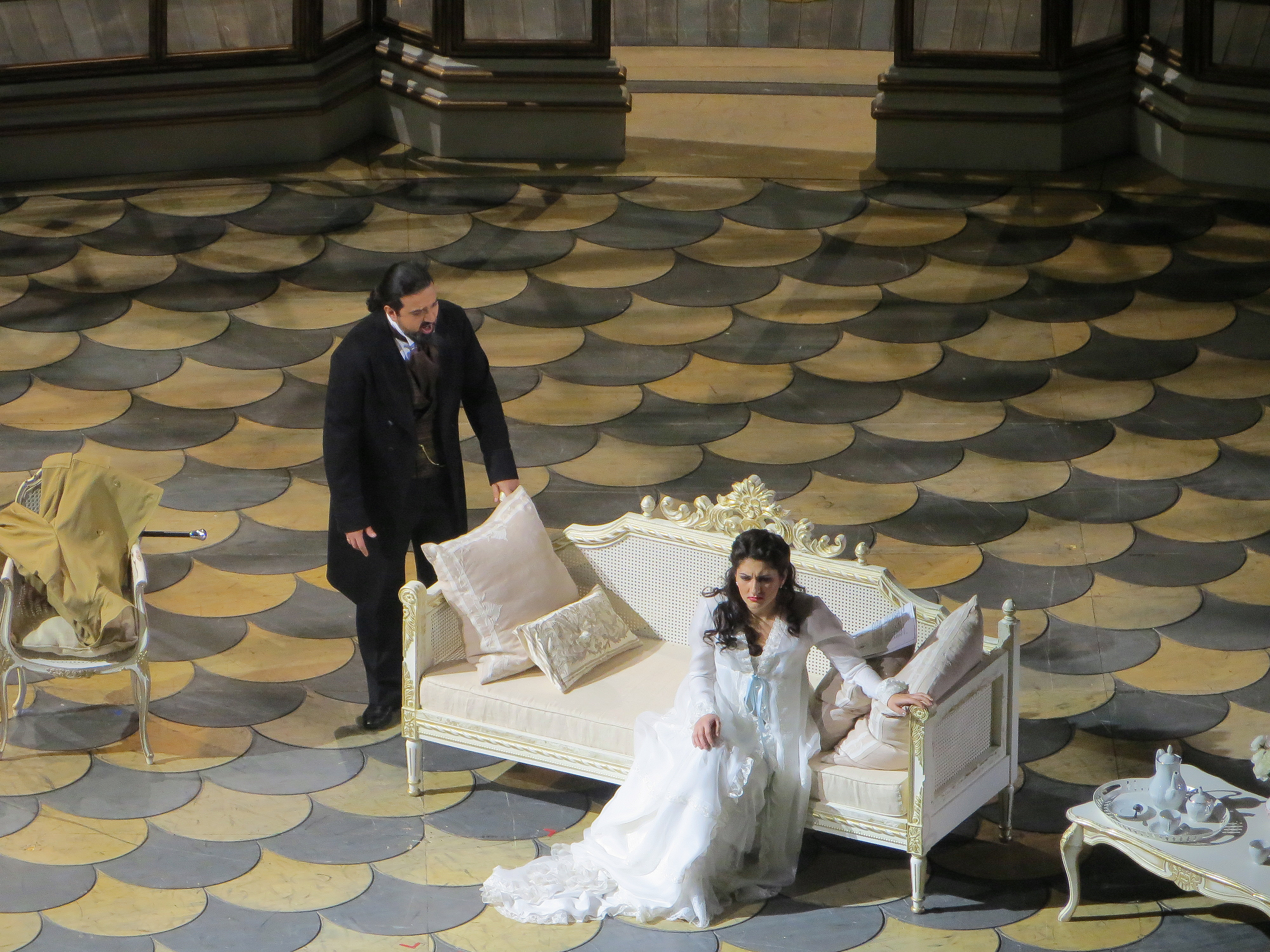 La traviata: Dinara Aliyeva as Violetta, Elchin Azizov as Germont; Bolshoi Theatre, 2013